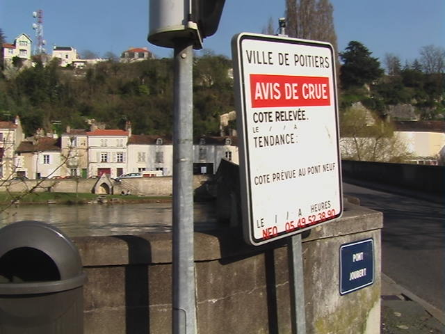 Clain river flooded in Poitiers